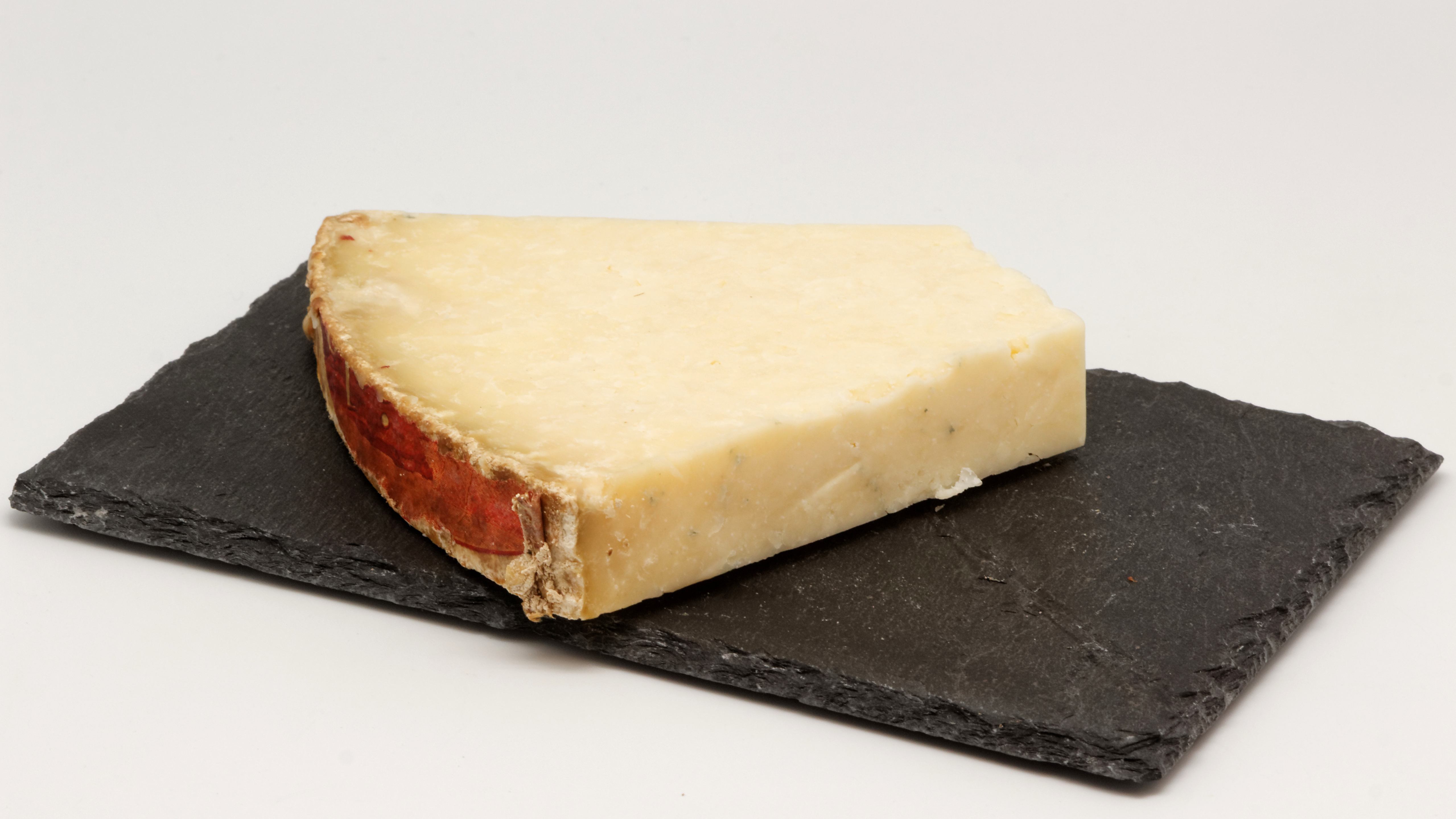 Laguiole (cow's milk cheese)